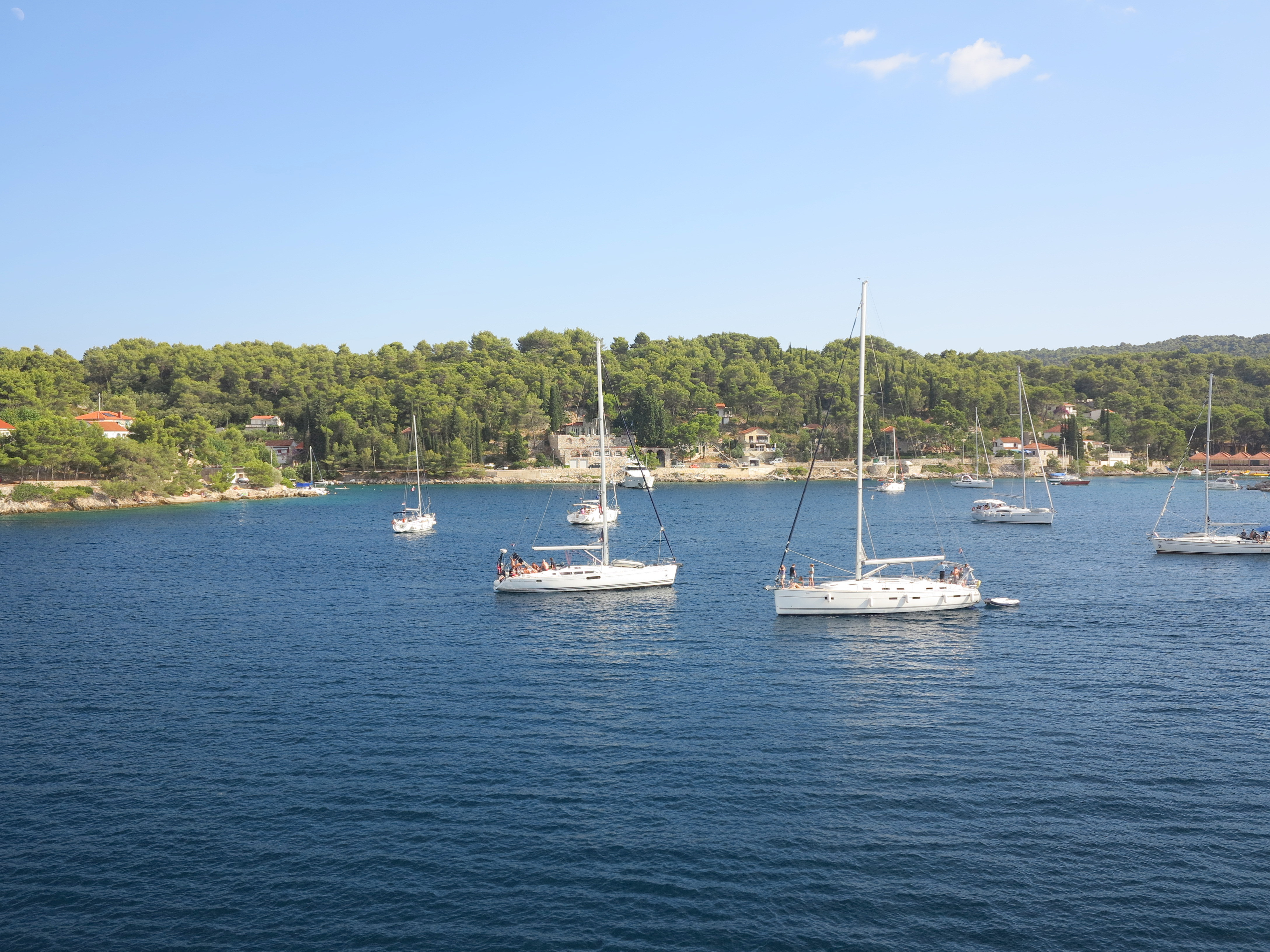 Rogač on the island Šolta / Croatia / Adriatic Sea.